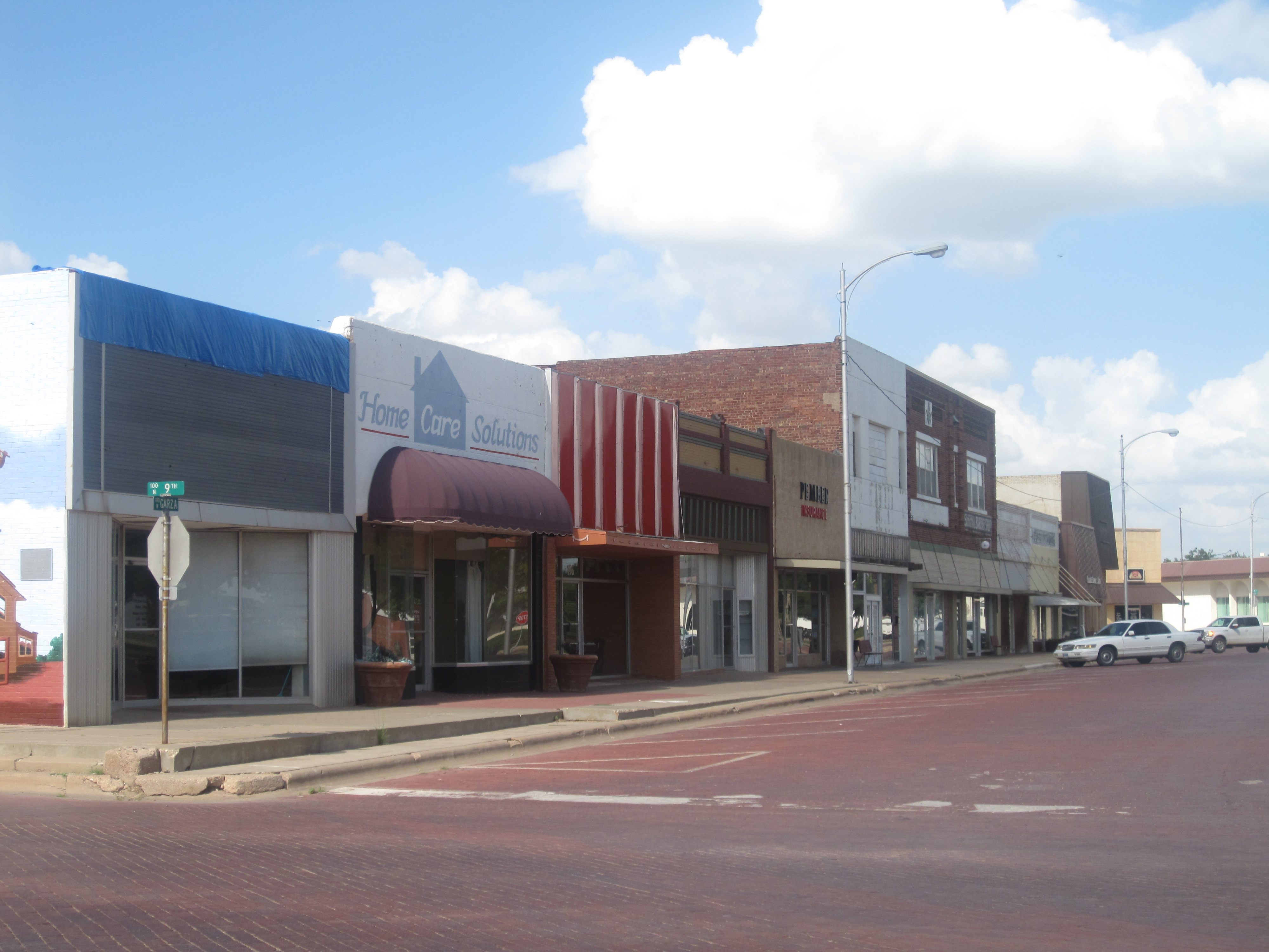 I took photo with Canon camera in Slaton, TX.